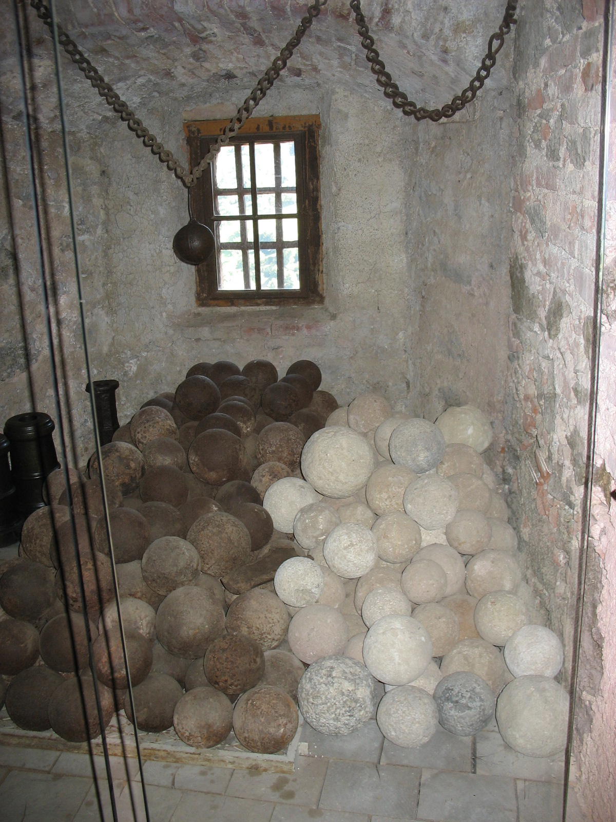 Cannon balls of Iron (left) and stone (right) in the permanent exhibition of Forchtenstein castle